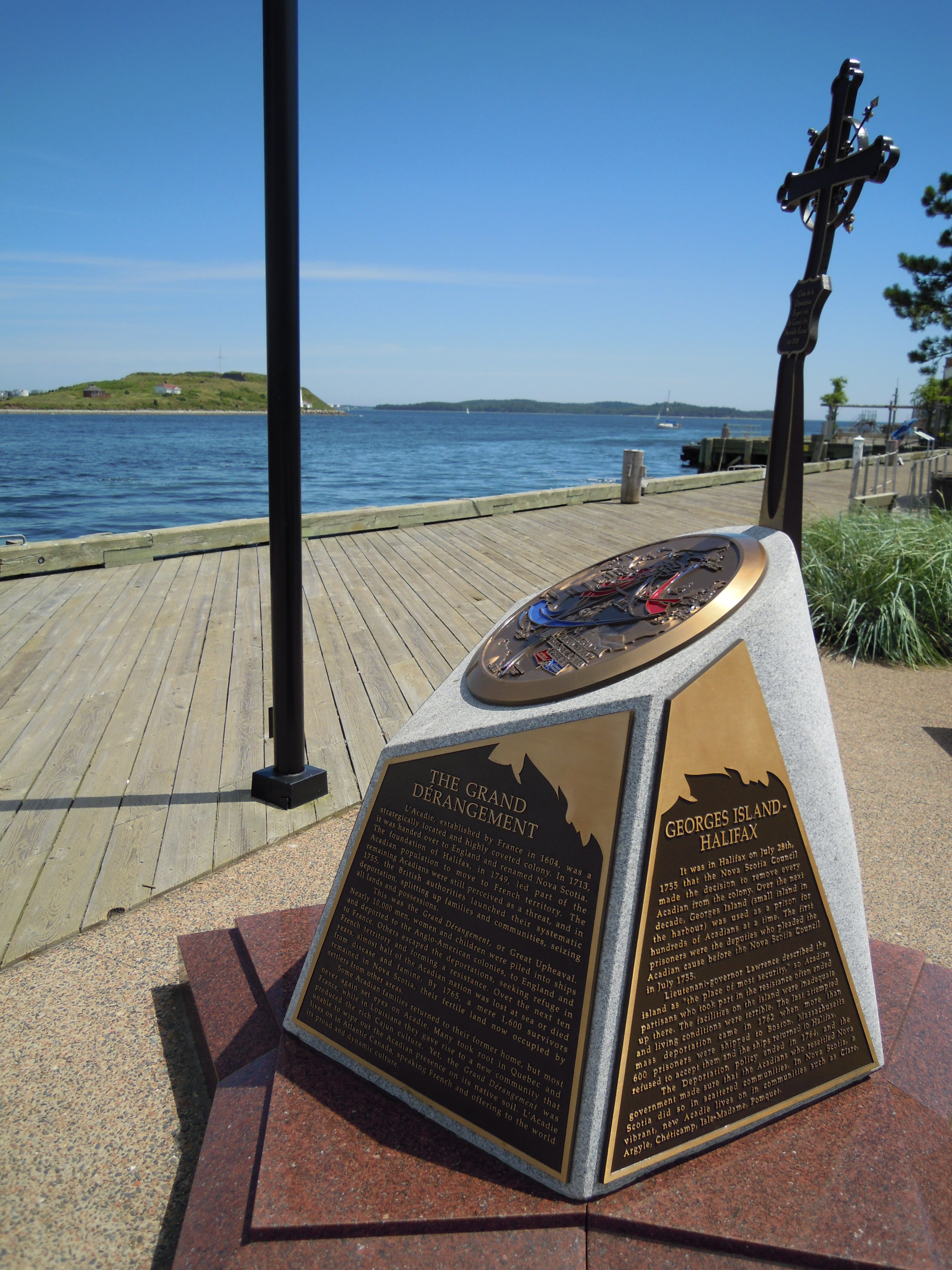 Monument in Halifax harbour commemorating the use of Georges Island as a prison for deported Acadians during the Grand Dérangement of the 1750s and 1760s. Georges Island is visible in the background.